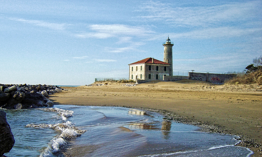 Bibione (Venezia)